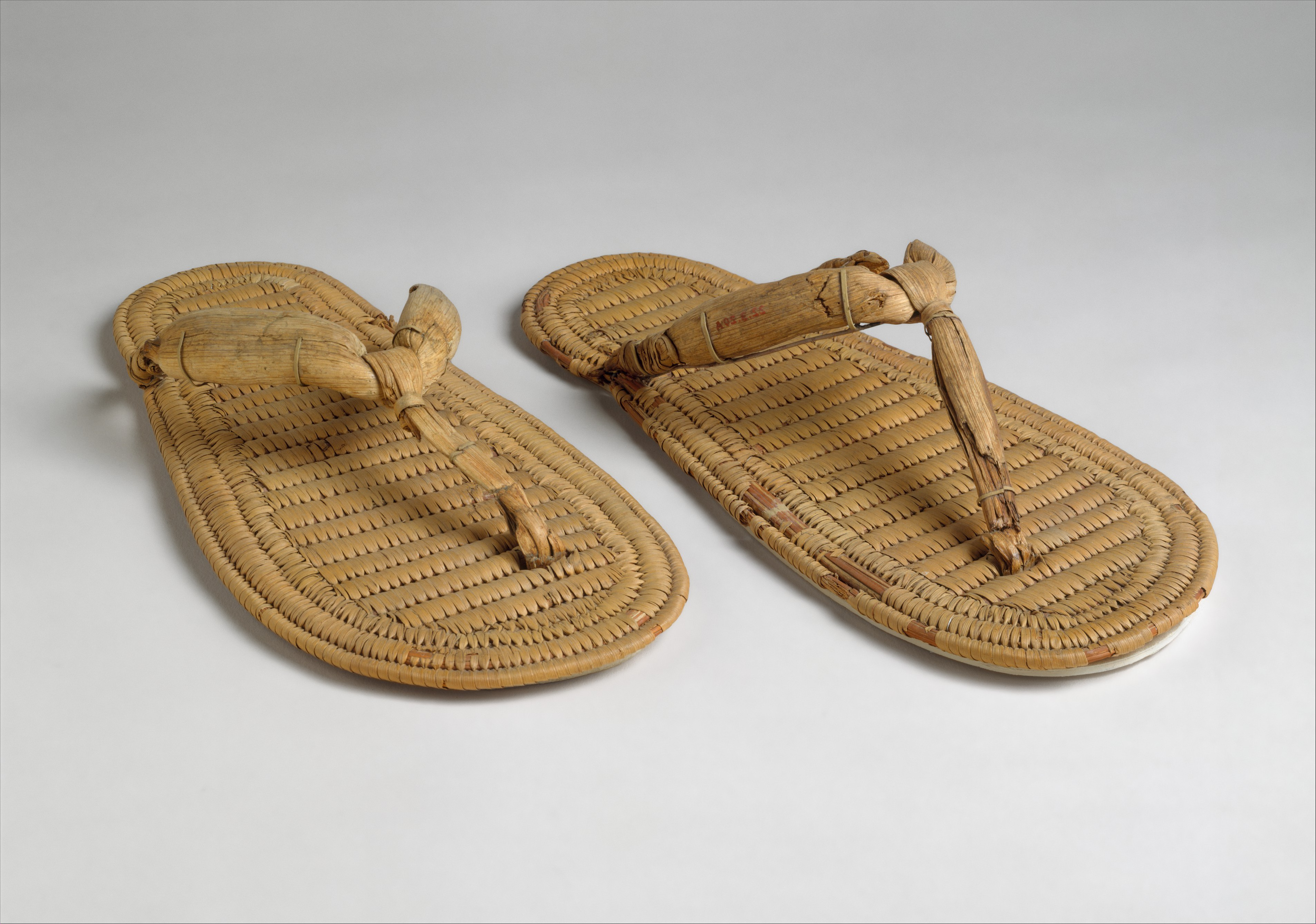 Sandals